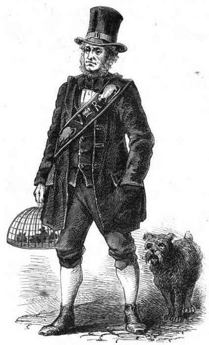 Her Majesty's Rat-catcher